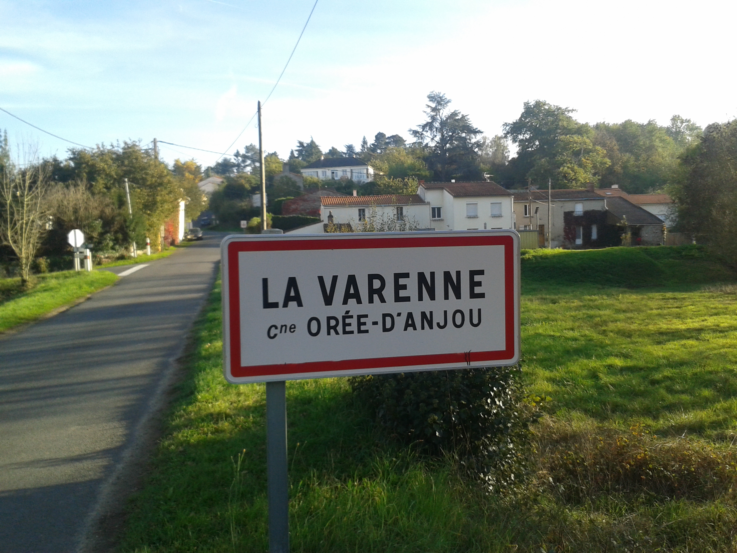 Entrance sign to La Varenne, commune of l'Orée d'Anjou, Maine-et-Loire, France